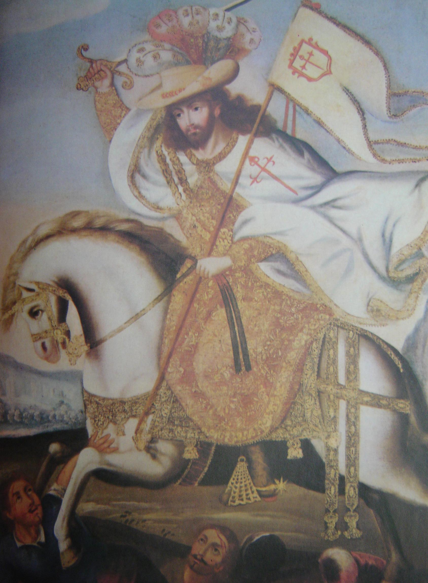 Saint James the Great as a Moor-killer. Saint James wears the habit of the his Order. The pilgrim hat has been represented as a Panama hat.